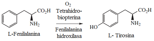 Phenylalanine hydroxylation scheme